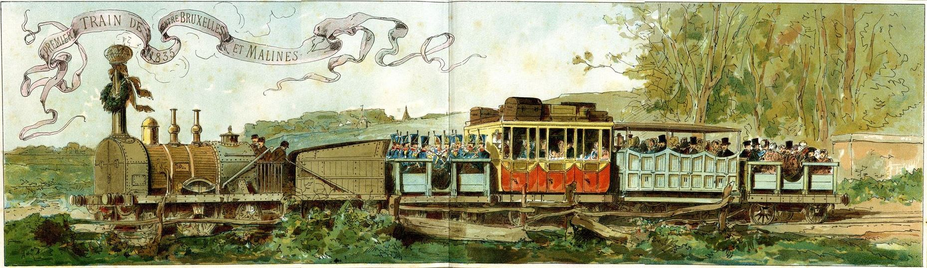 Aquarelled drawing of the first Belgian train ride in 1835, made by Heins for the 50-year jubilee of the Belgian railway and published in Cortège historique des moyens de transport (Brussels, 1886)